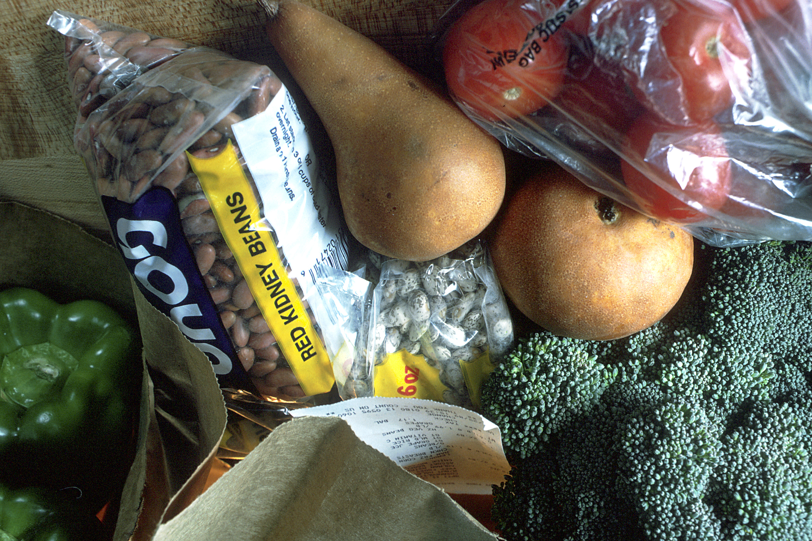 Title Grocery Bag of Healthy Foods Description An overflowing grocery bag spills out. Broccoli, pears, bag of red kidney beans, peppers and tomatoes in a plastic bag are on a wooden table in a tight shot. Topics/Categories Food and Drink Type Color, Photo Source National Cancer Institute